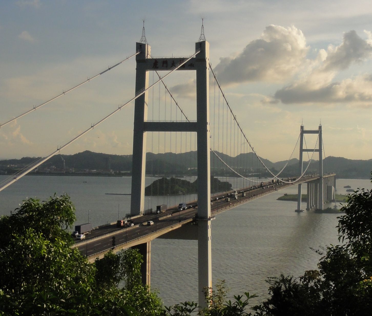 Humen Bridge in Dongguan Original description:將再度跨過虎門大橋上方 再び虎門大橋の上を通過するところ